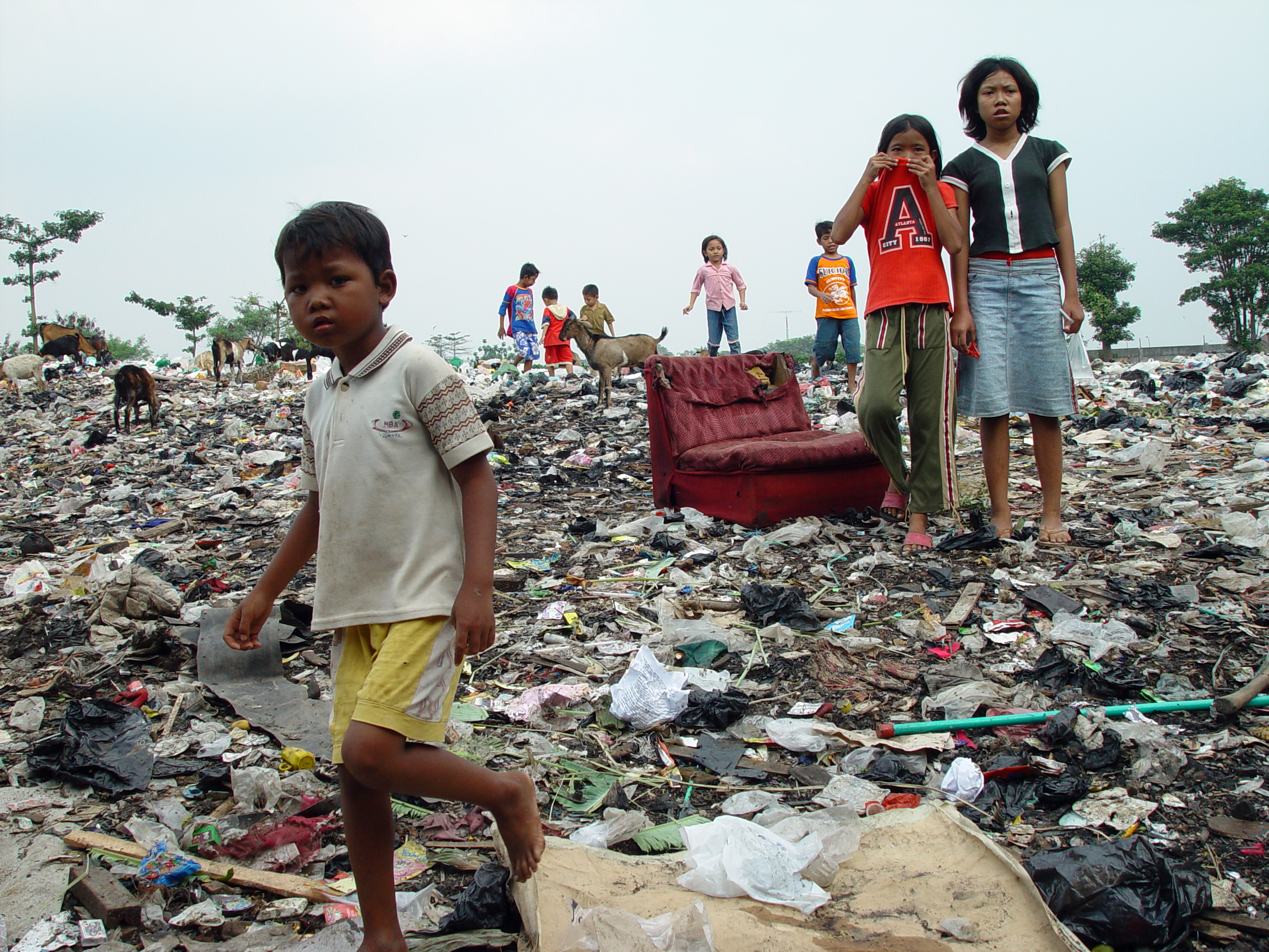 Slum life, Jakarta Indonesia.